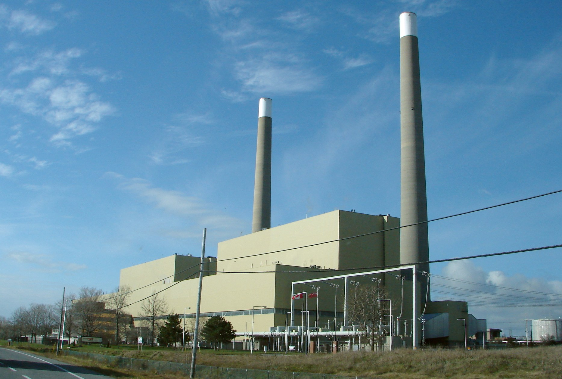 Lennox Power Station near Bath, Ontario, Canada